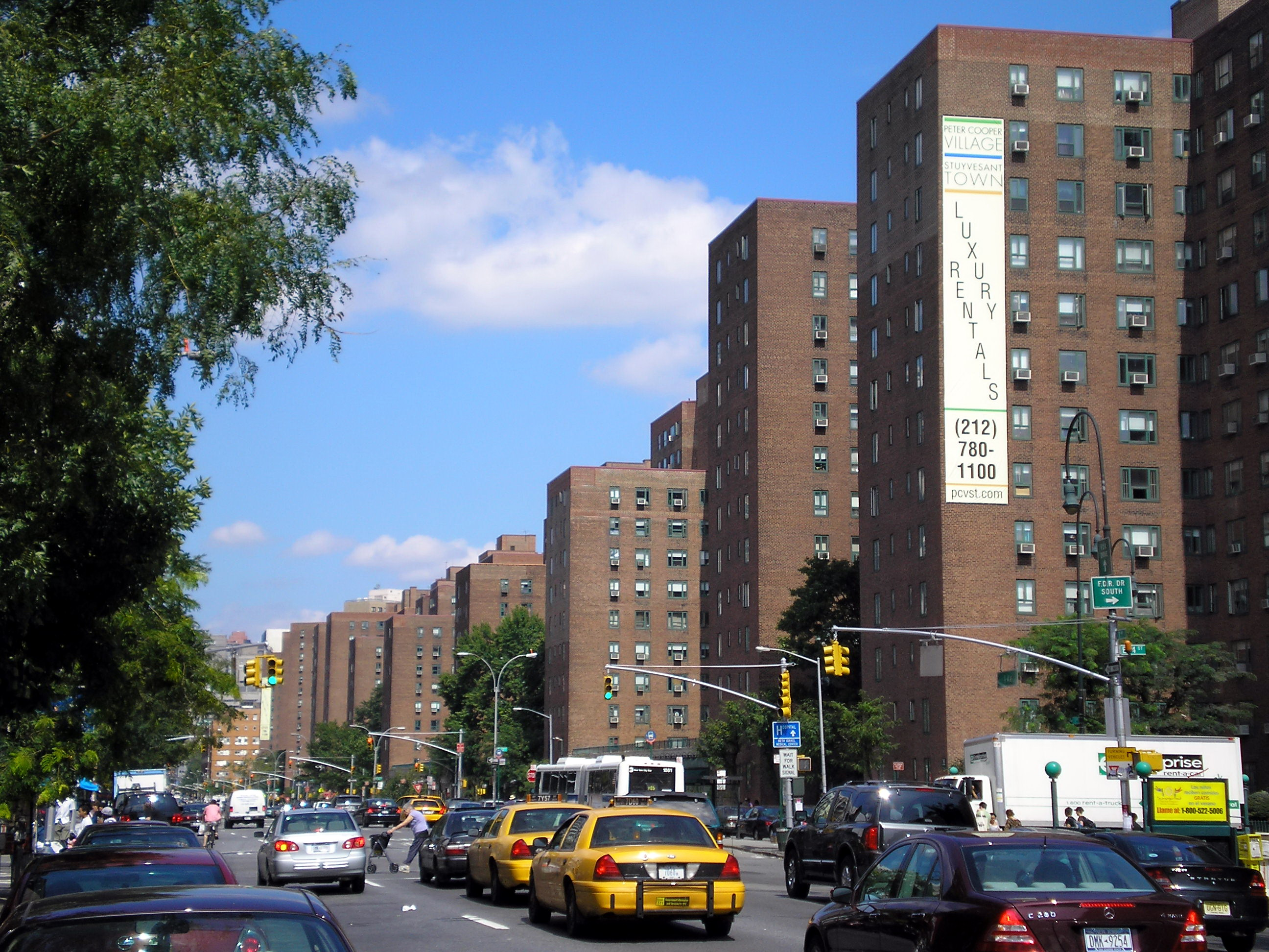 Stuyvesant Town seen from 1st Avenue and 14th Street. A sign advertising luxury rentals can be seen clearly.